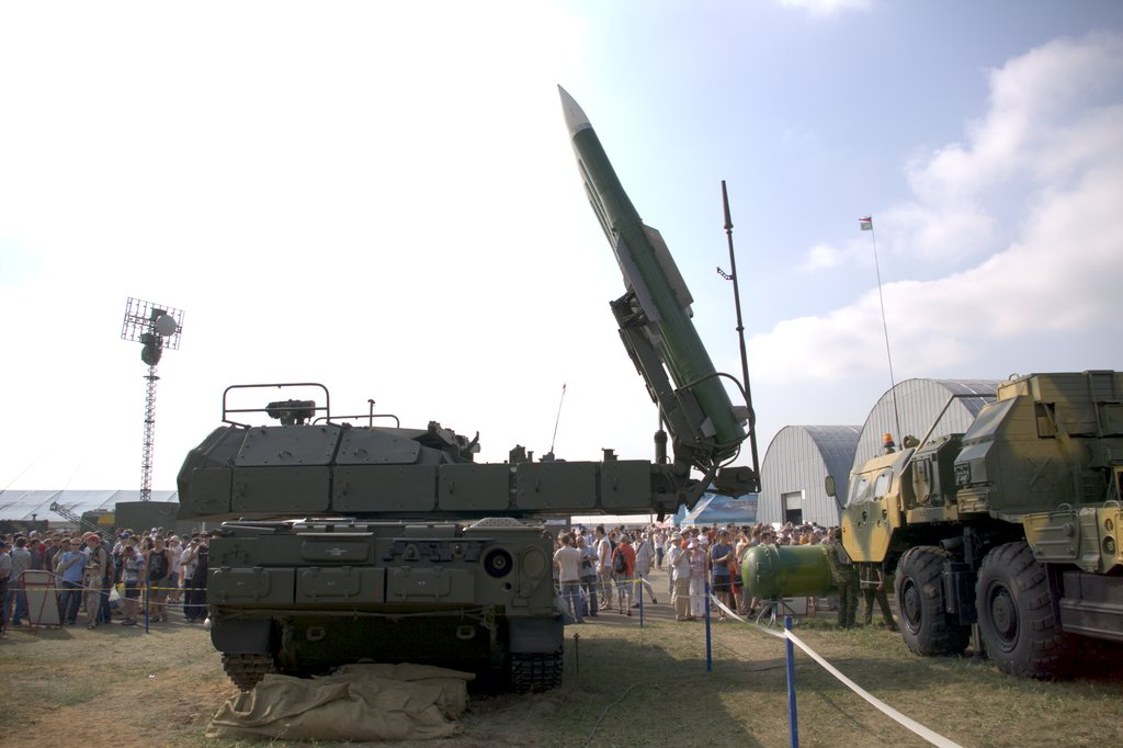 Surface-to-air missile system «Buk-M2» at the «MAKS 2007».aa